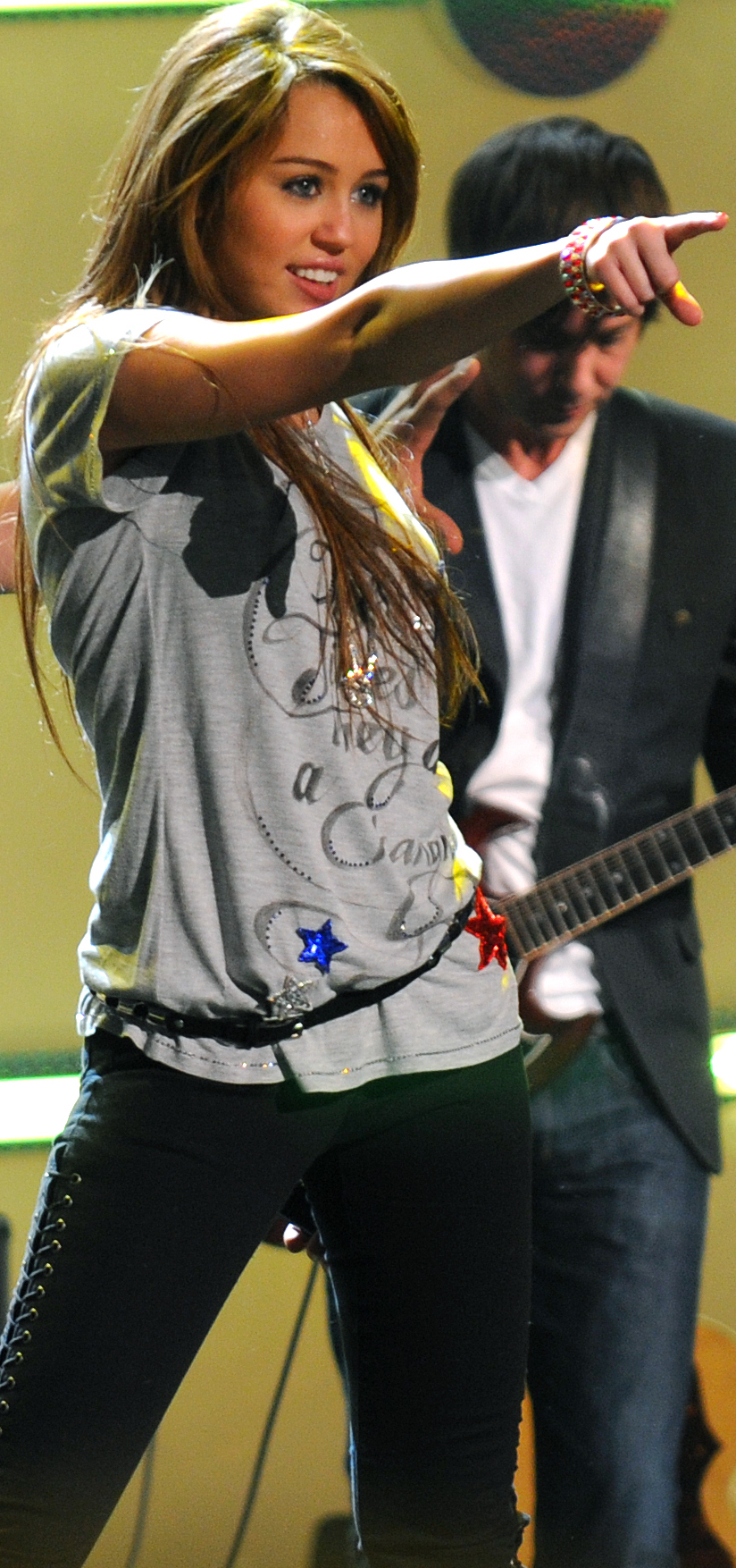 Miley Cyrus performs at the “Kids Inaugural: We Are the Future” concert at the Verizon Center in downtown Washington, D.C., Jan. 19, 2009.